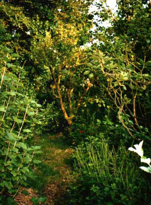 Photo of Robert Hart's forest garden by Graham Burnett